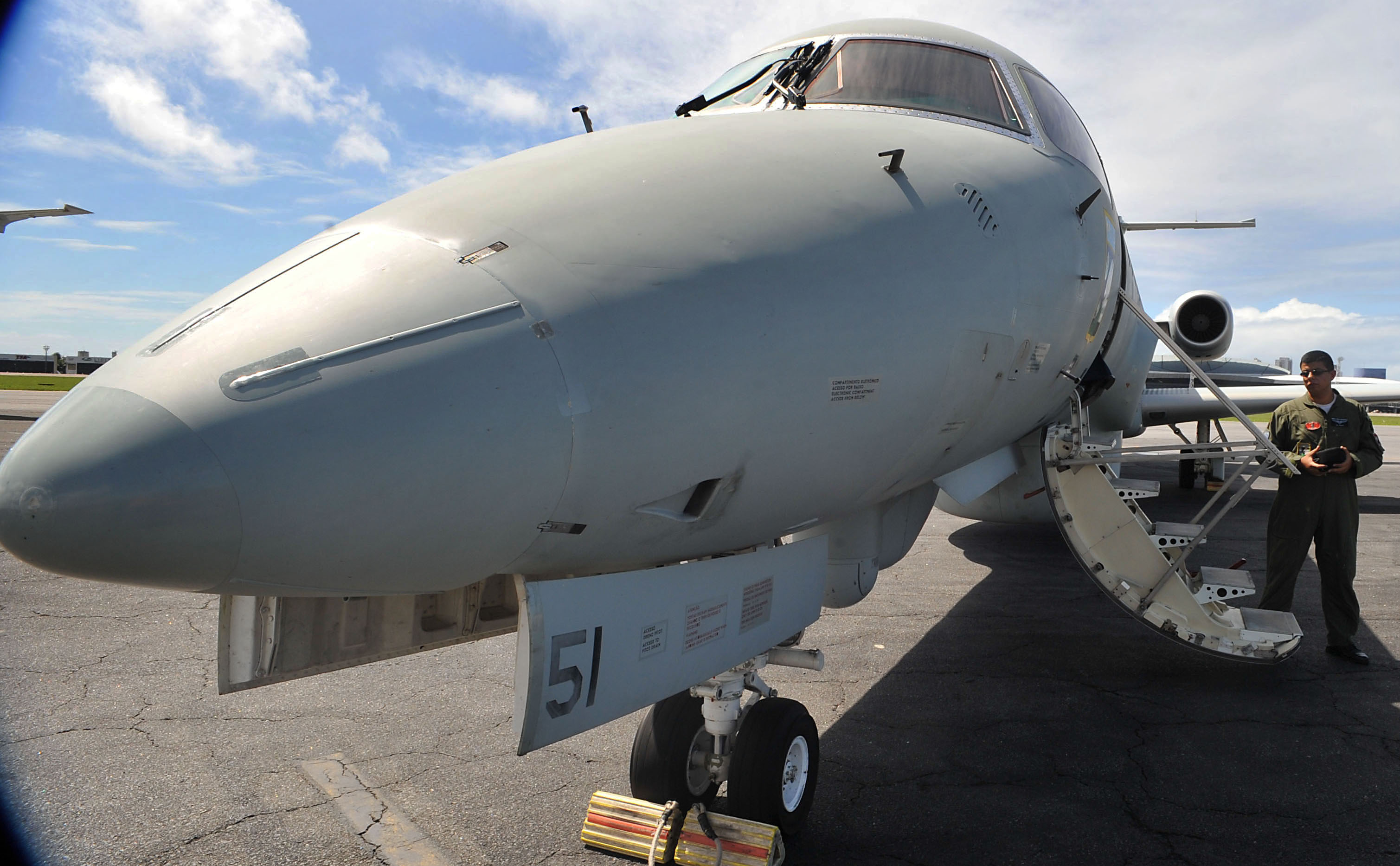 The R99 aircraft of the Brazilian Air Force (BAF), equipped with radars capable to track potential debris of the missing AF 447 Airbus A330.